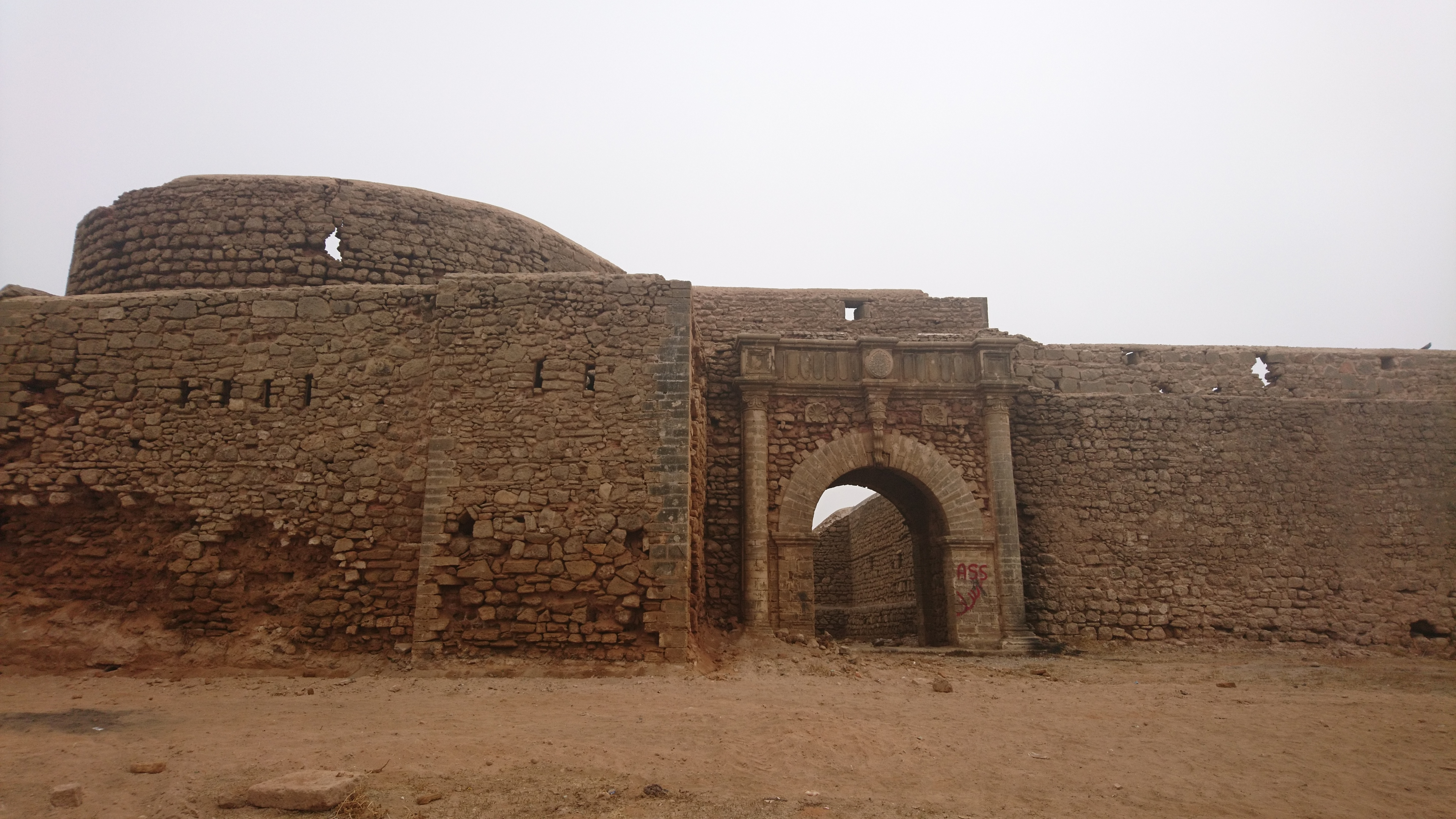 Old gate and its surrounding wall, in Salé, Morocco